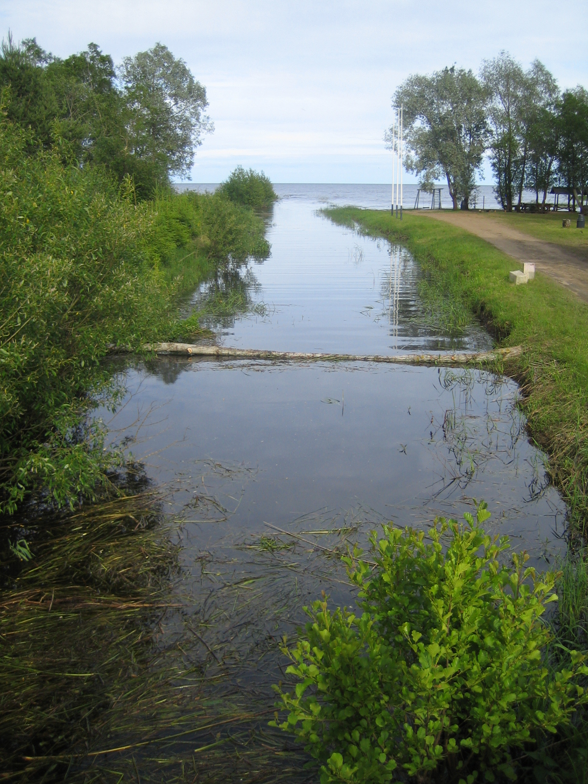 Tammispää river in Tammispää village